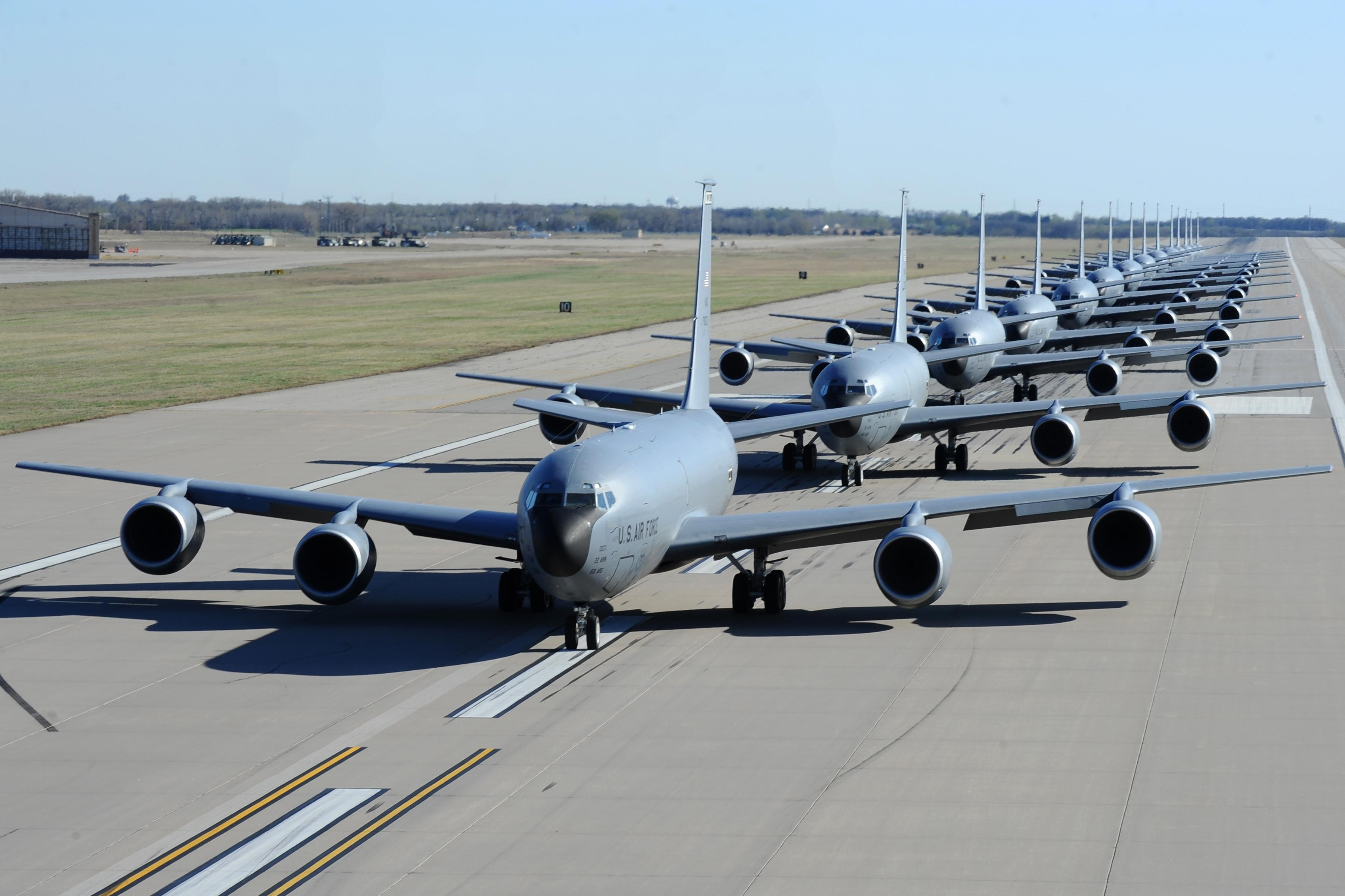 Fourteen KC-135 Stratotankers line up during a simulated alert call March 24, 2016, at McConnell Air Force Base, Kan. Known as the “elephant walk,” the alert call was part of an exercise, which displayed the rapid mobility capabilities and teamwork of the men and women at McConnell AFB to take flight within minutes of being notified of a mission.